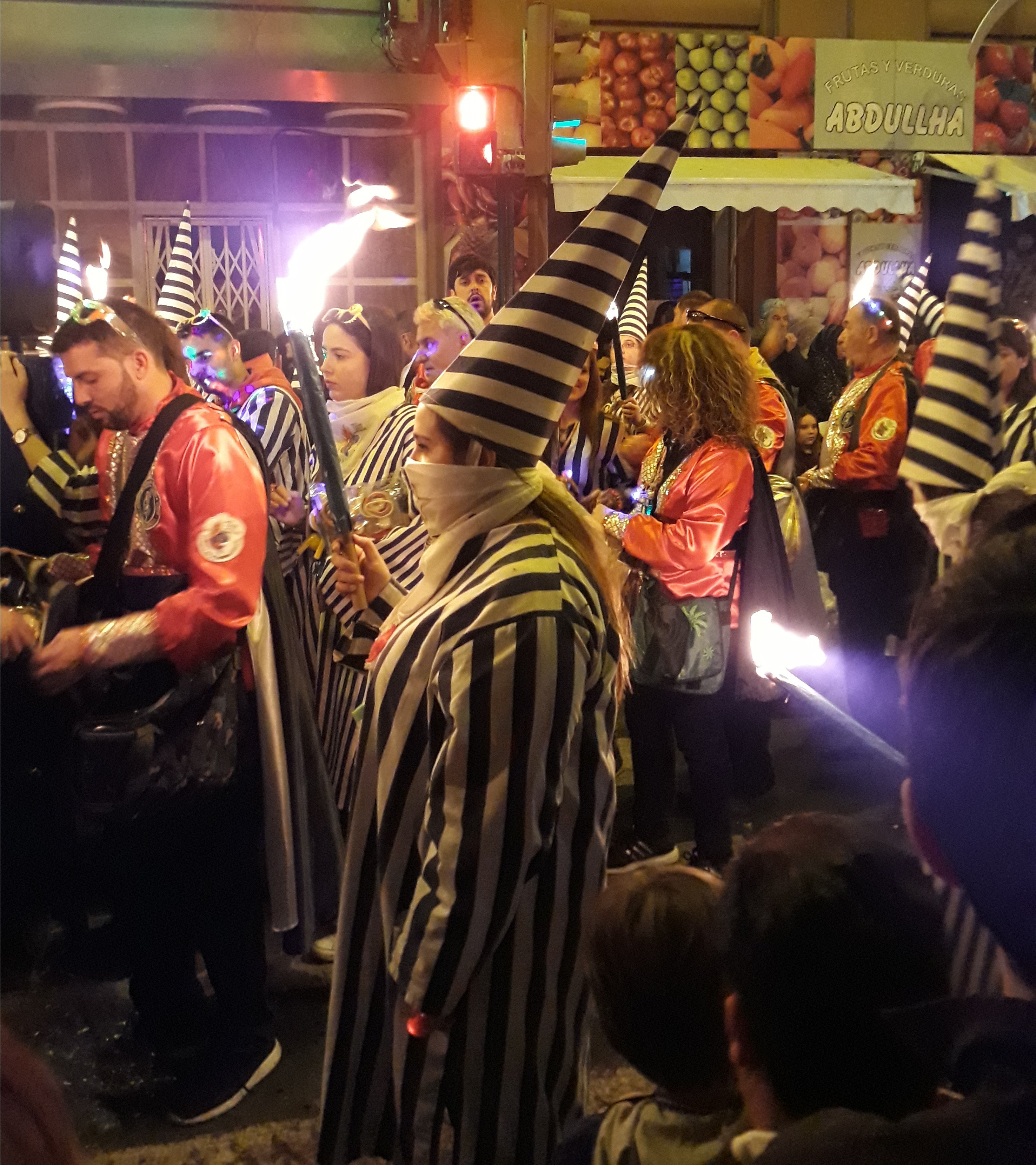 Hachonera